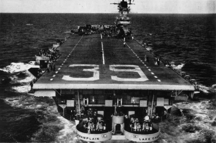 Deck view from aft of the U.S. Navy aircraft carrier USS Lake Champlain (CVA-39) in 1953. The Champ was deployed to the Korean War, the Indian Ocean and the Mediterranean Sea from 26 April to 4 December 1953. The planes visible belong to Carrier Air Group 4 (CVG-4) (tail code "F"), also identifiable are two McDonnell F2H-2P of Composite Squadron 62 (VC-62) "Fighting Photos" (tail code "PL").